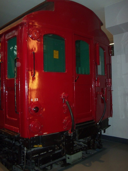 The London Underground Q23 (ex District Railway G Stock) at London Transport Museum at Covert Garden